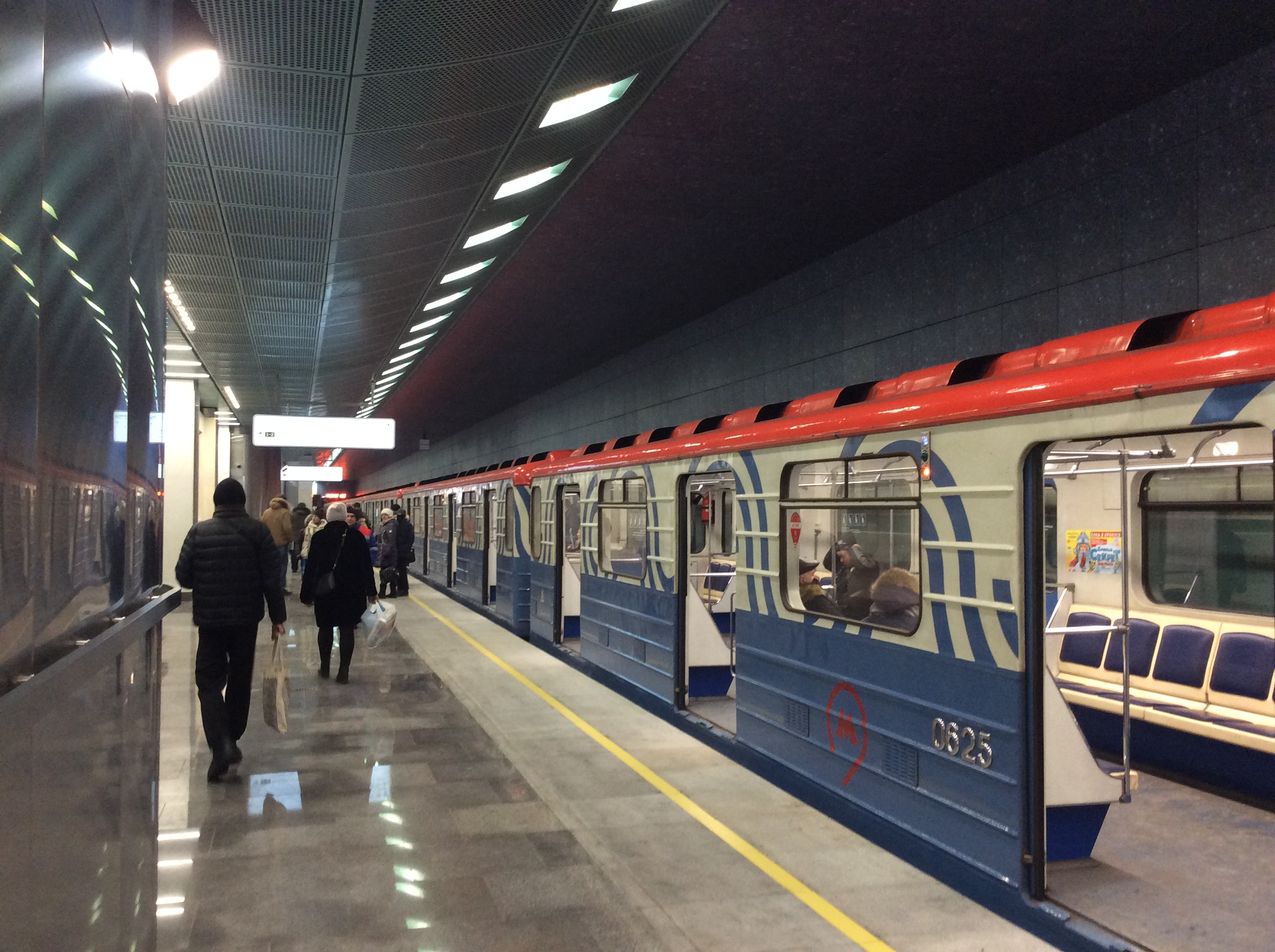 Belomorskaya station (Moscow Metro), the opening day.